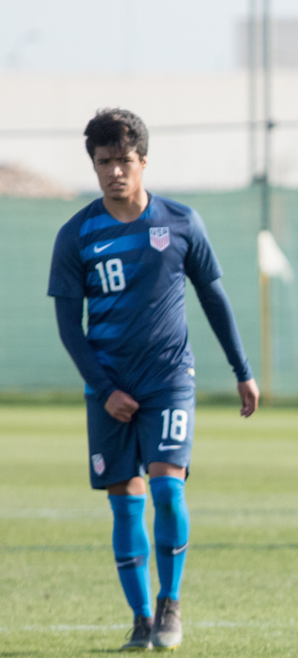 USA U20 v France U20, 22 March 2019